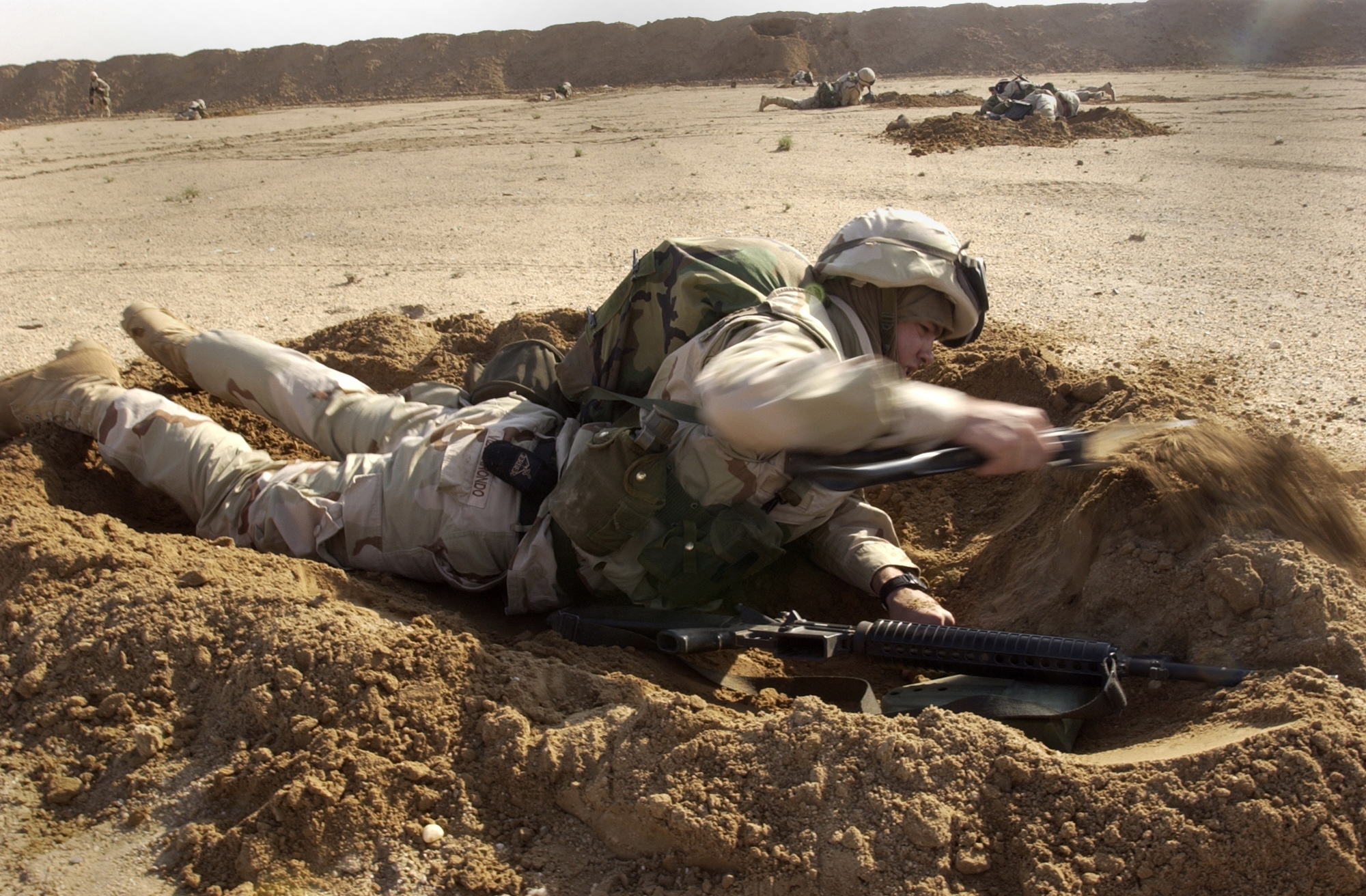 Central Command Area of Responsibility (Feb. 9, 2003) -- Construction Electrician 3rd Class Justin Vizcarrondo assigned to Naval Mobile Construction Battalion Seventy-Four (NMCB-74) uses an entrenching tool to dig a "hasty scrape" during field combat training operations. NMCB-74 is home-based in Gulfport, Miss. and is forward deployed in support of Operation Enduring Freedom. U.S. Navy photo by Photographer’s Mate 1st Class Brien Aho. (RELEASED)